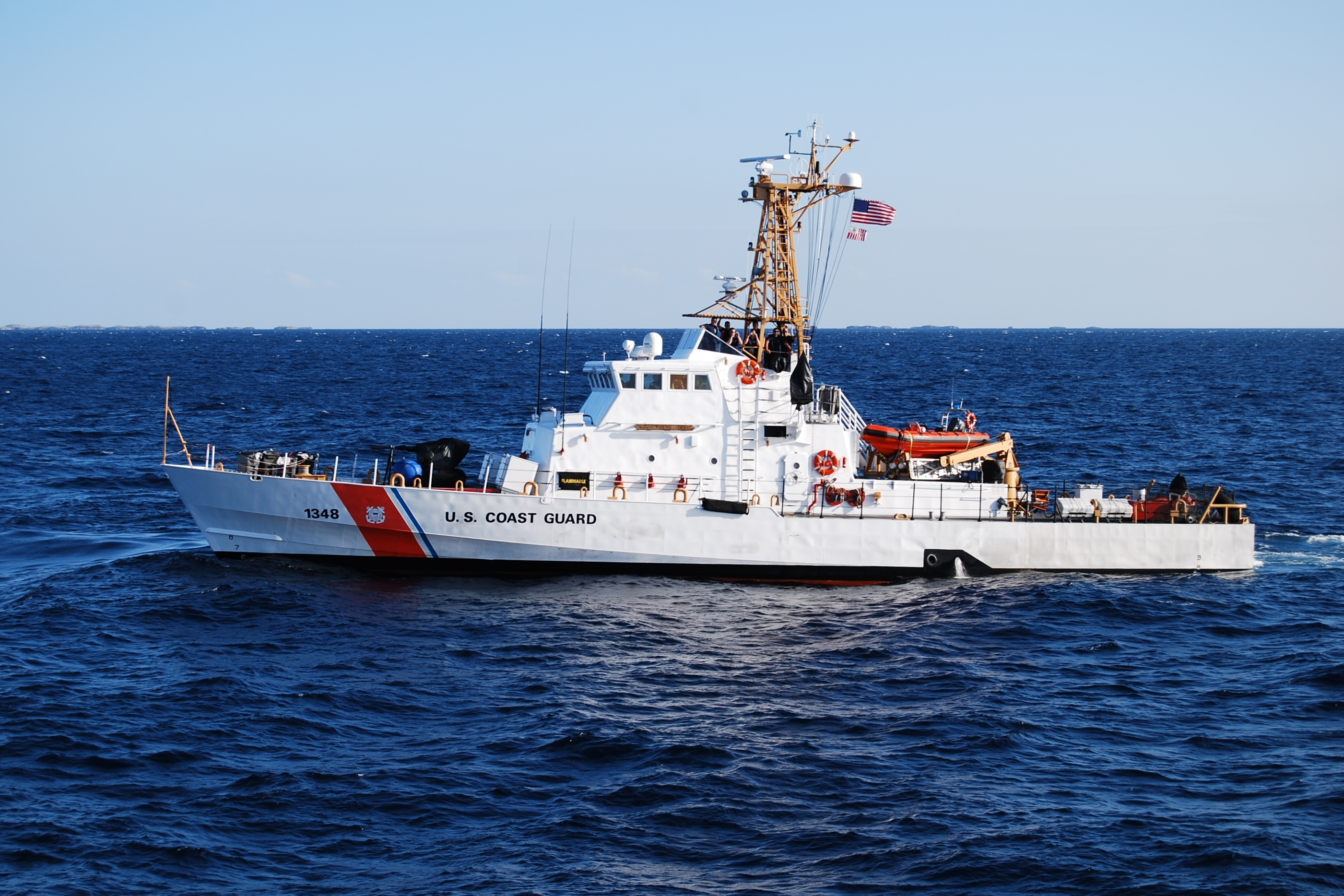 US Coast Guard Cutter Knight Island (WPB-1348)